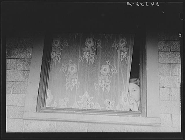 Prostitution at a window during the Great Depression, Illinois